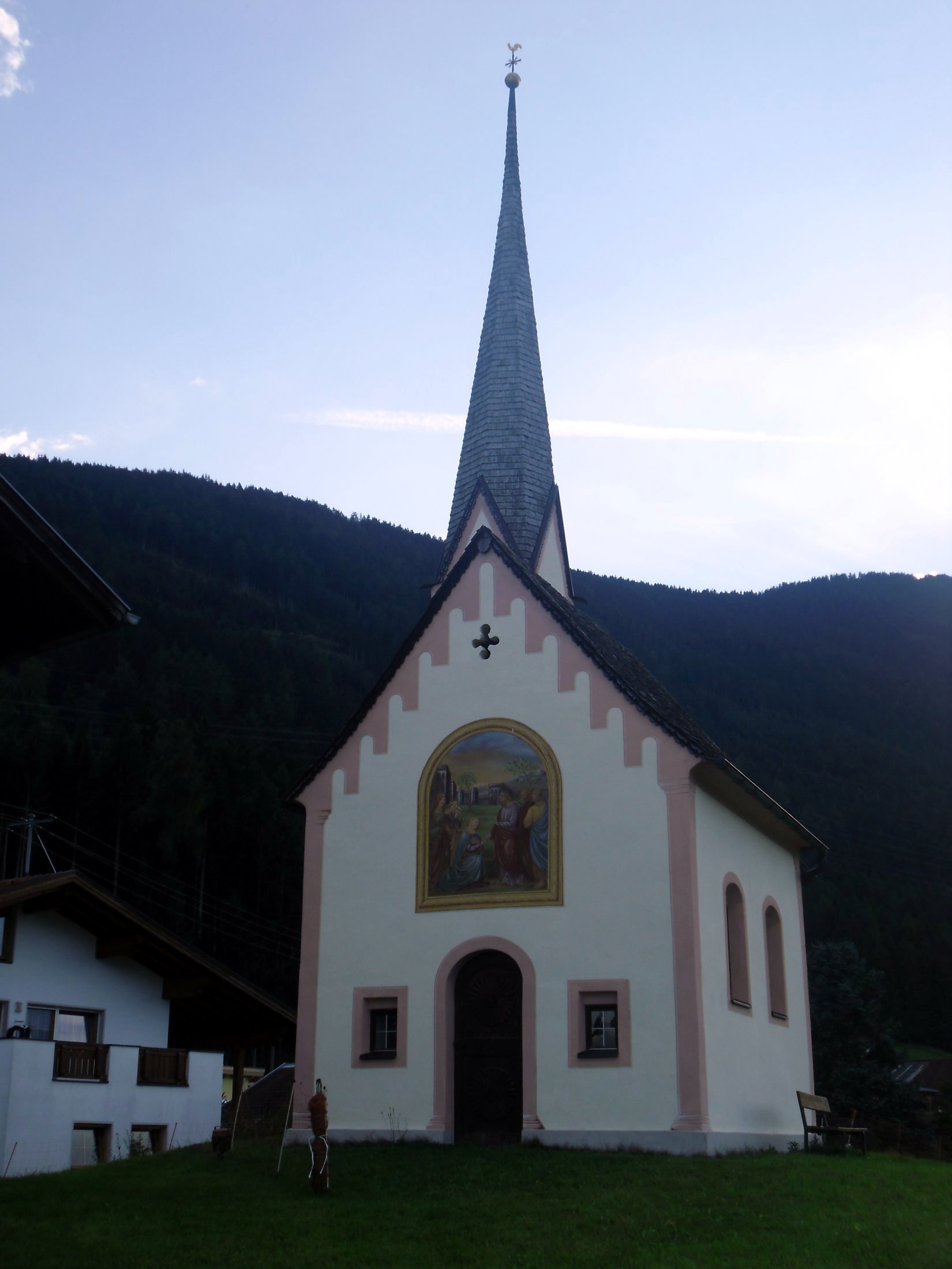 Ortskapelle, Polten-Kapelle zur Schmerzhaften Muttergottes